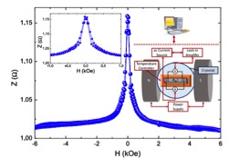 Typical experimental set-up for measuring the GMI (inset) and room temperature GMI data for a FeZr alloy.